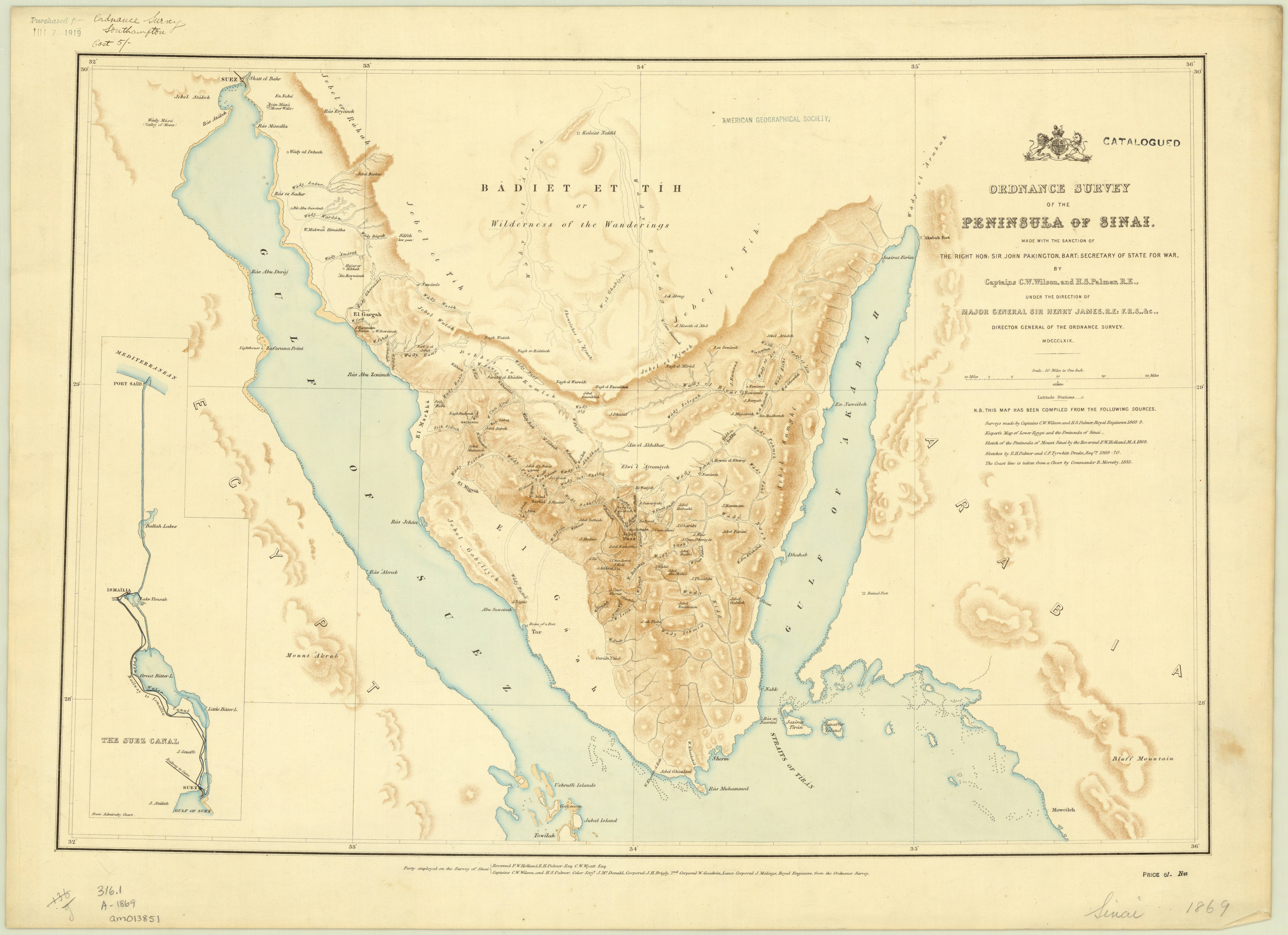 Ordnance Survey of the Peninsula of Sinai made with the sanction of the Right Hon: Sir John Pakington, Bart: Secretary of State for War, by Captains C.W. Wilson and H.S. Palmer under the direction of Major General Sir Henry James